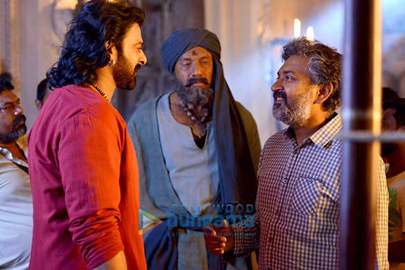 Actors Prabhas (left) and Sathyaraj (Middle) filming for Baahubali the Conclusion, with director S. S. Rajamouli (right)